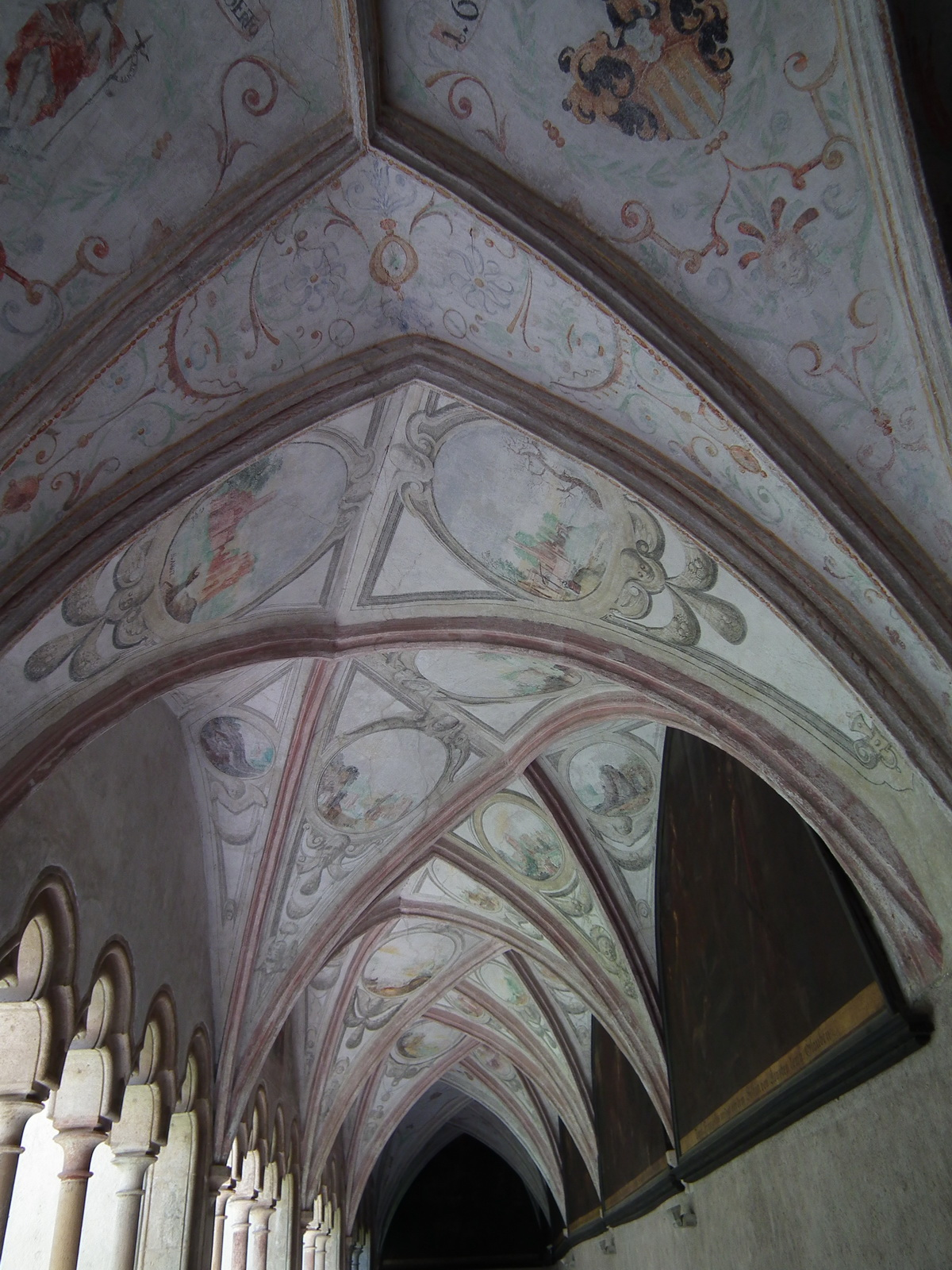 Church of the Franciscan Order Native nameFranziskanerkirche/Chiesa dei FrancescaniLocationBolzano, ItalyCoordinates46° 30′ 02.61″ N, 11° 21′ 15.03″ E